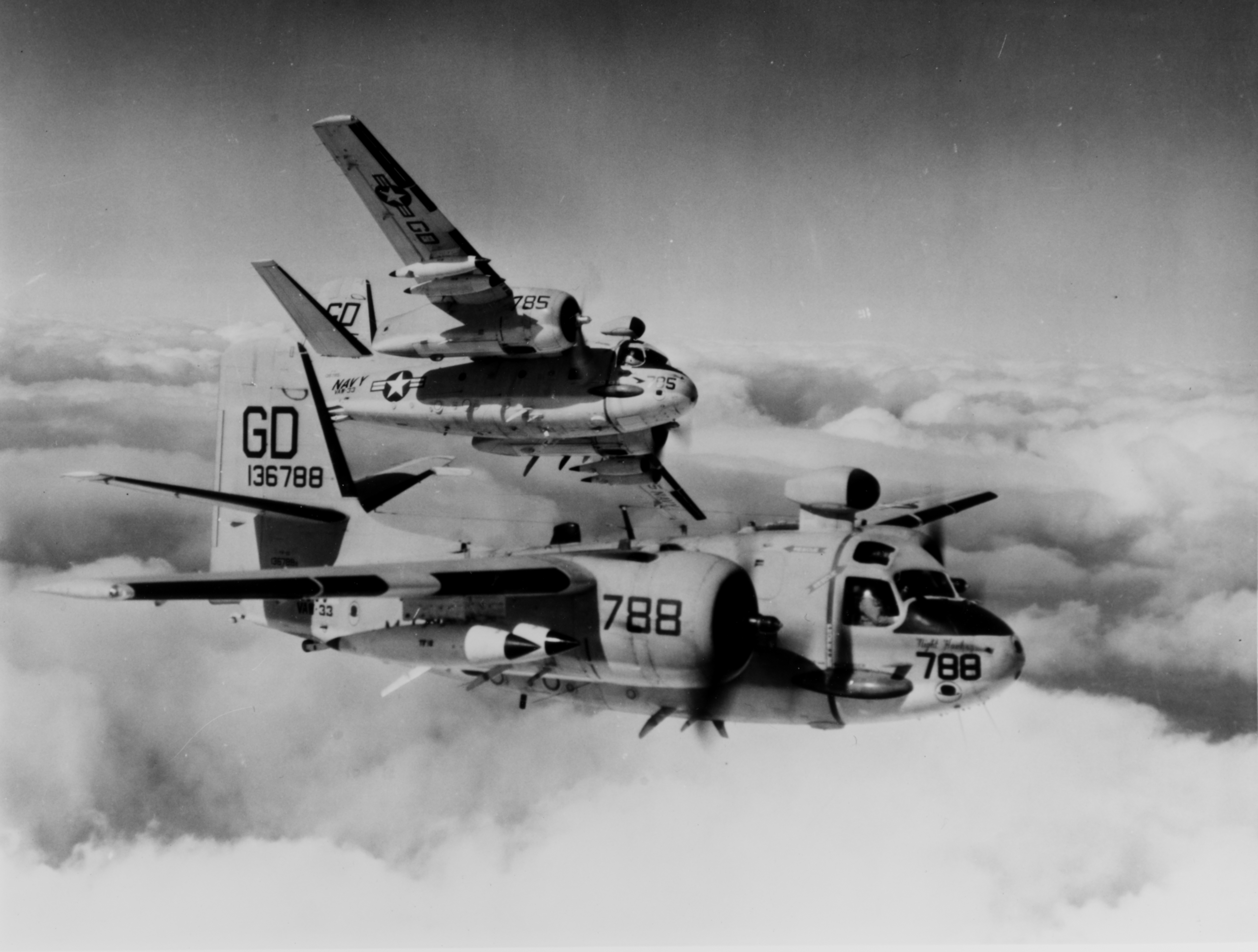 Two U.S. Navy Grumman EC-1A Electric Trader aircraft (BuNo 136785, 136788) from Airborne Early Waring Squadron VAW-33 Night Hawks during the early-mid 1960s. The aircraft carry four ALT-2 jamming pods.